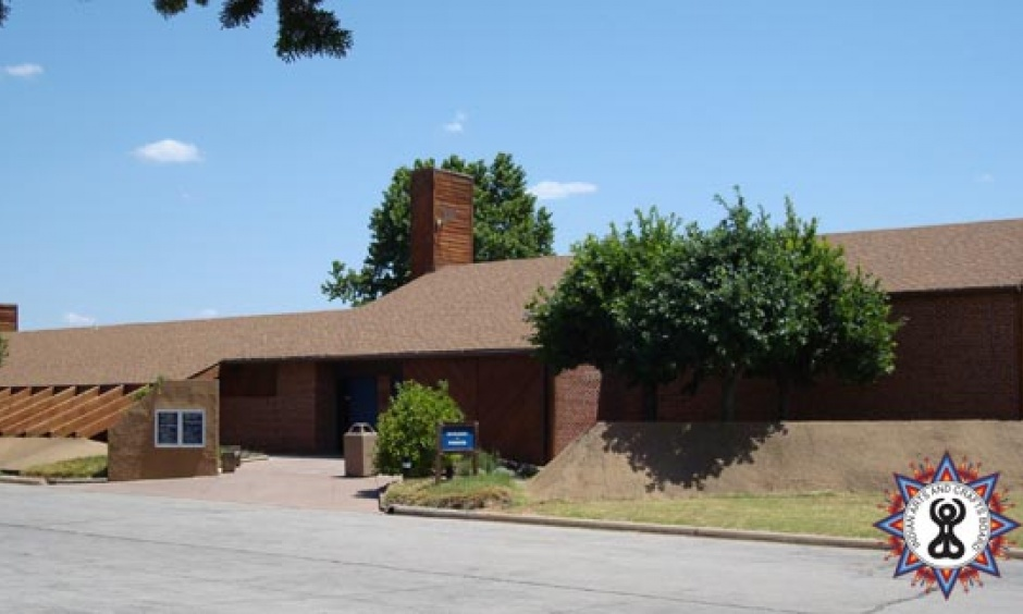 "The Southern Plains Indian Museum displays richly varied arts of western Oklahoma tribal peoples including the Kiowa, Comanche, Kiowa-Apache, Southern Cheyenne, Southern Arapaho, Wichita, Caddo, Delaware, and Ft. Still Apache. Their historic clothing, shields, weapons, baby carriers, and toys highlight the exhibits"